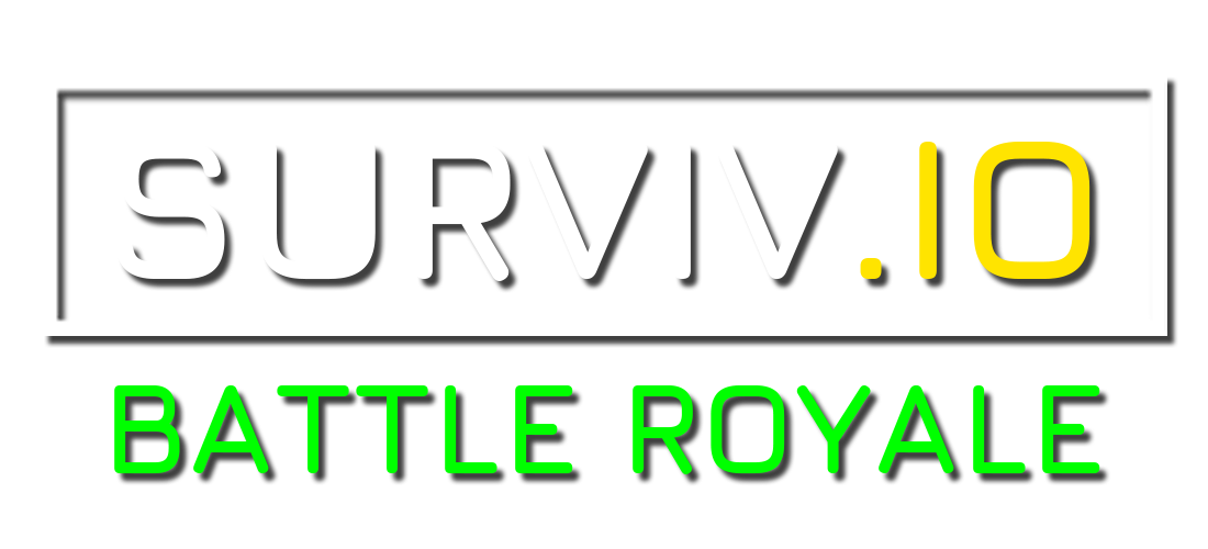 The logo for online game Surviv.io.